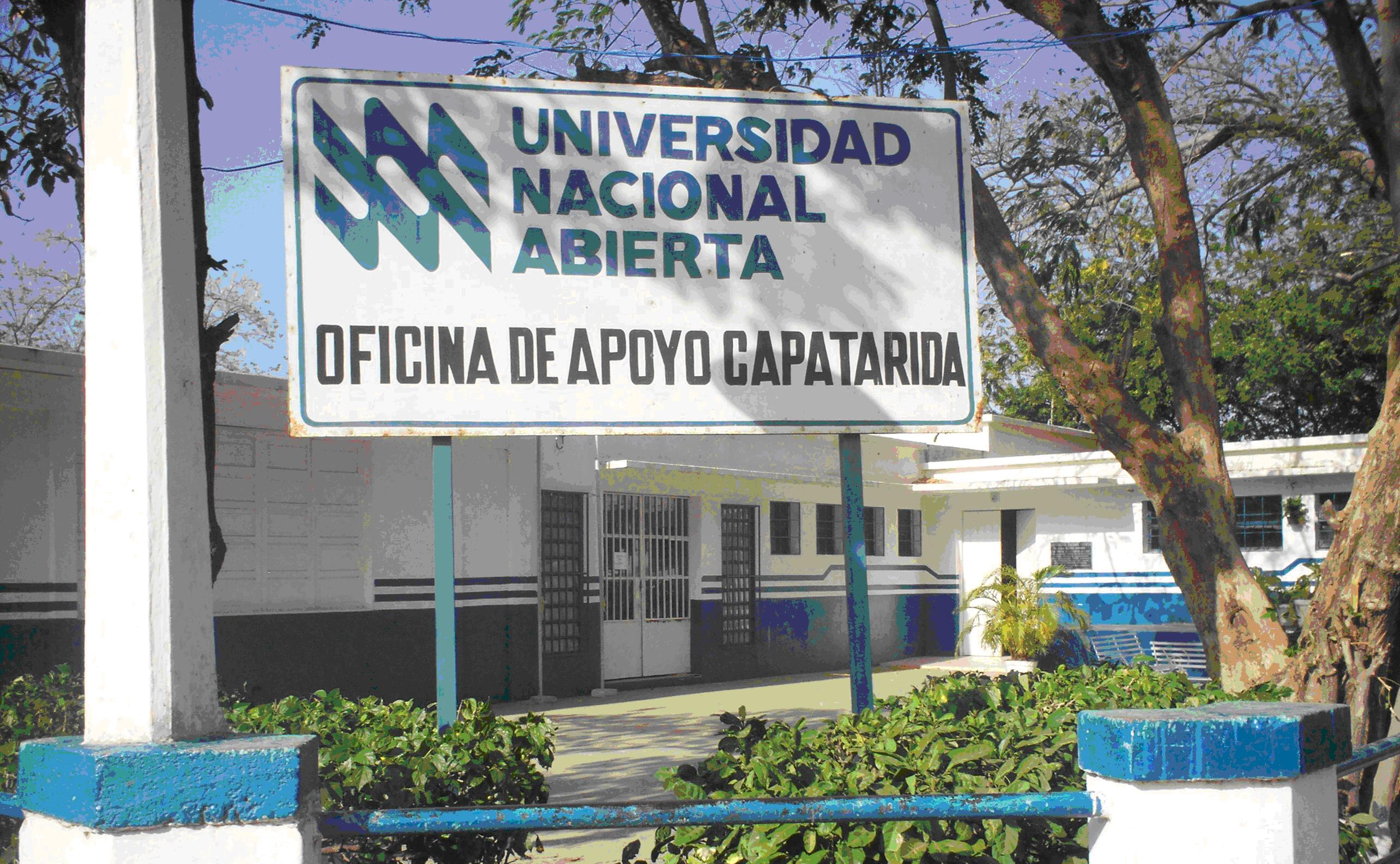 UNA National Open University